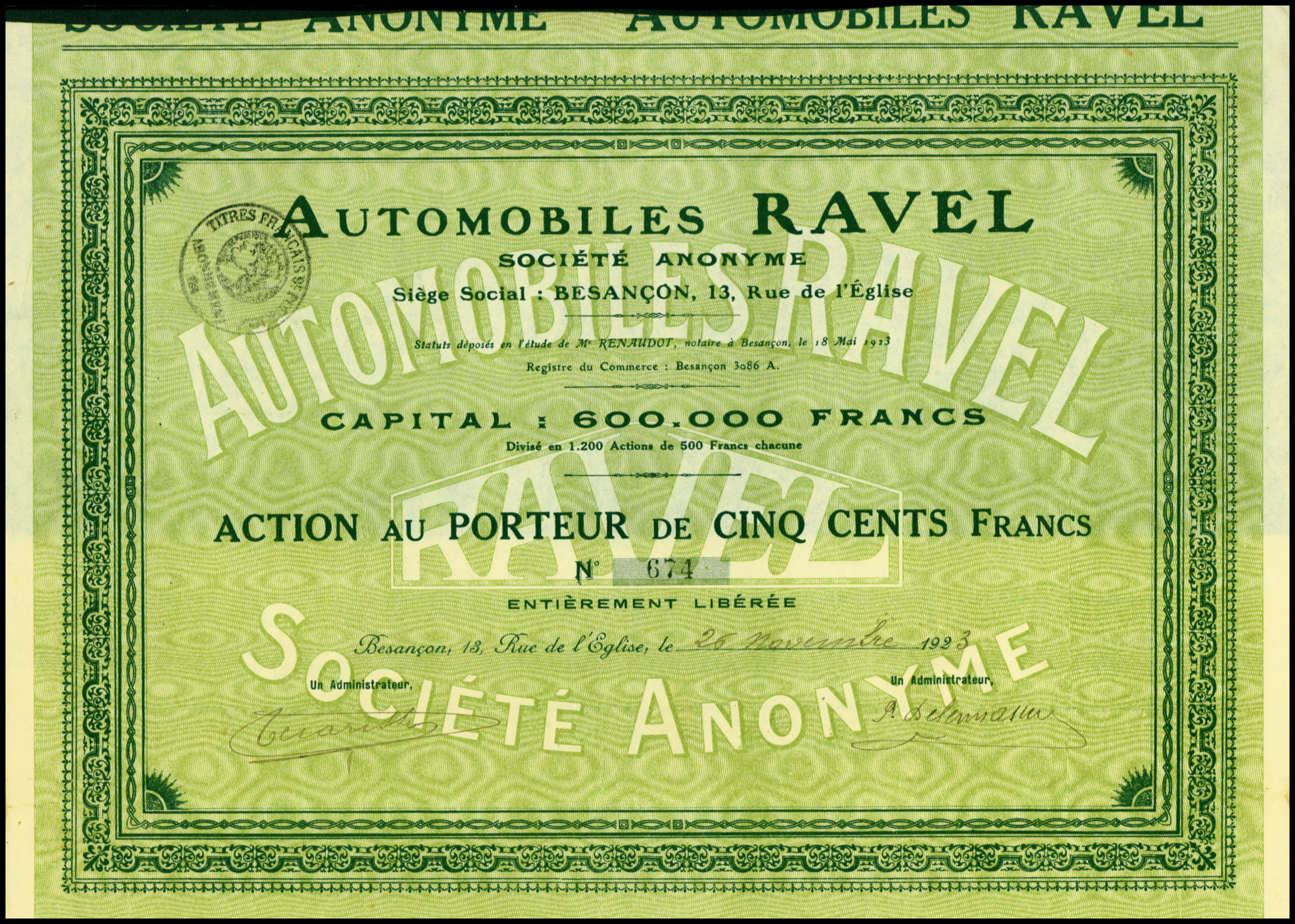 Share of the Automobiles Ravel S.A., issued 26. November 1923